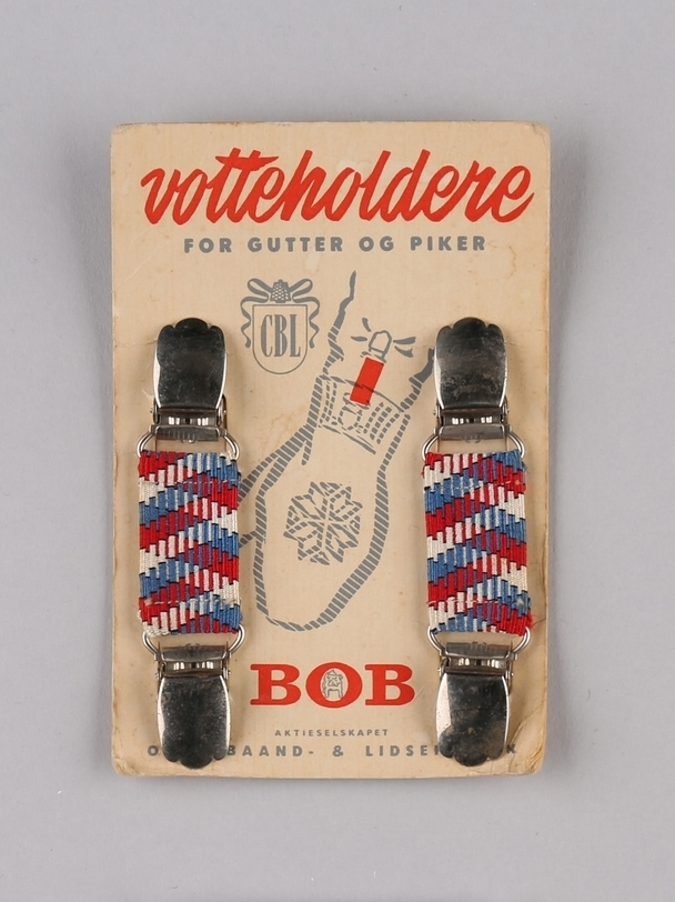 BOB mitten holders produced at Oslo Baand & Lidsefabrik in Oslo, Norway (object no. NTMT.02961, The Norwegian Knitting Industry Museum).